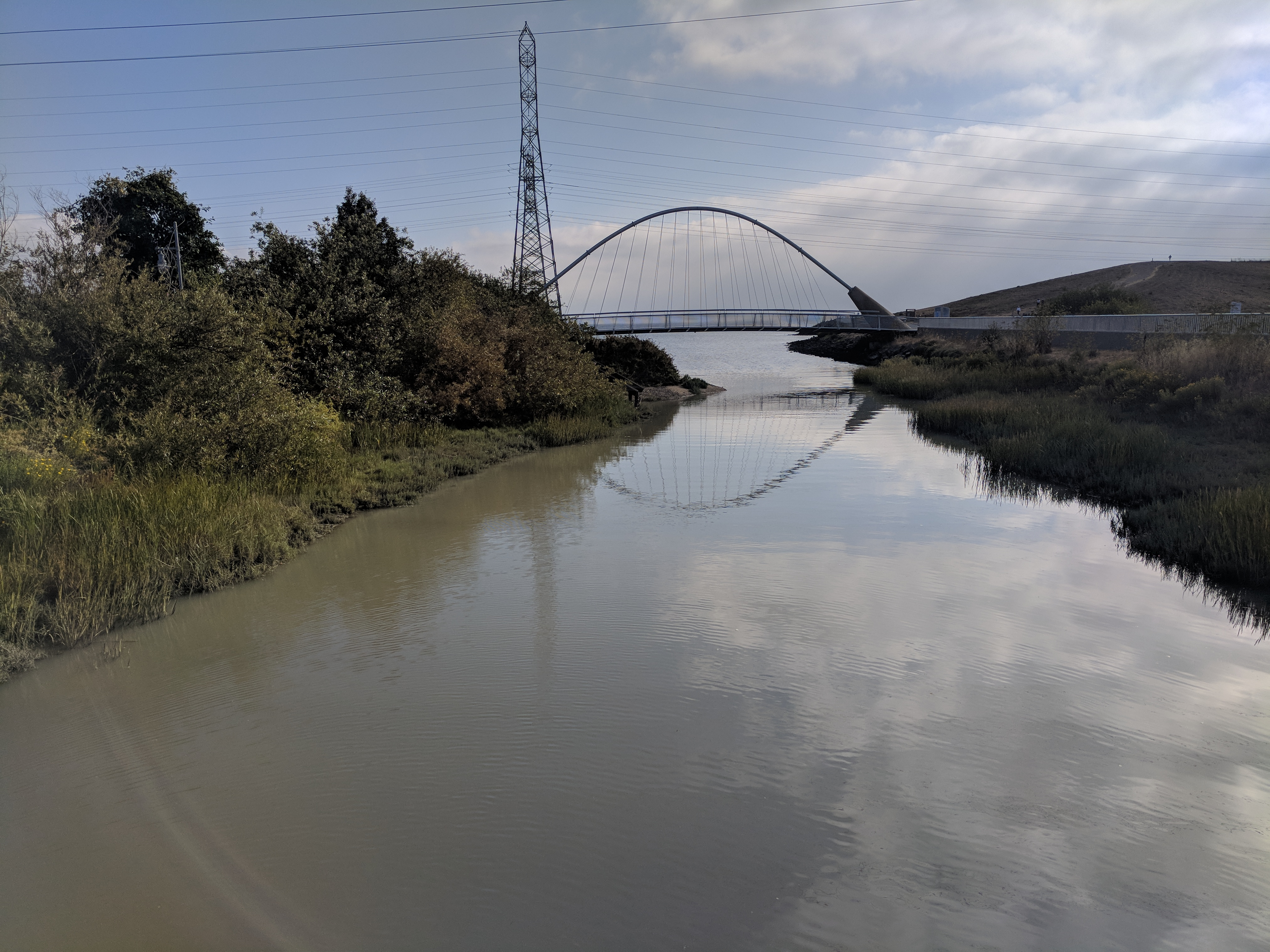 San Mateo Creek, looking toward the mouth at the Ryder Park bridge.